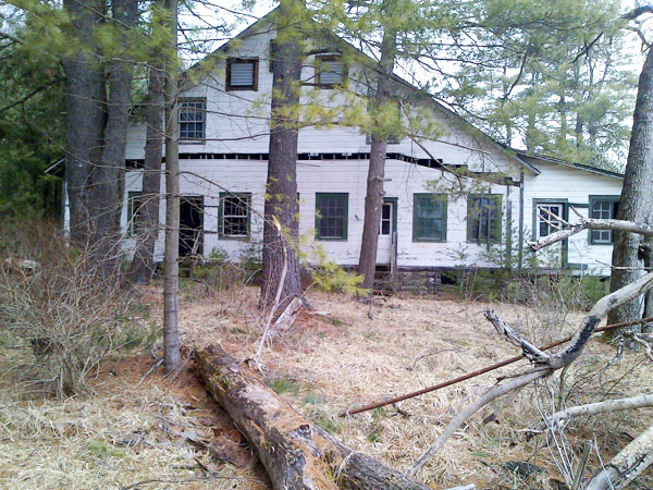 The Camp High Point Dining Hall as it looked in March of 2013.